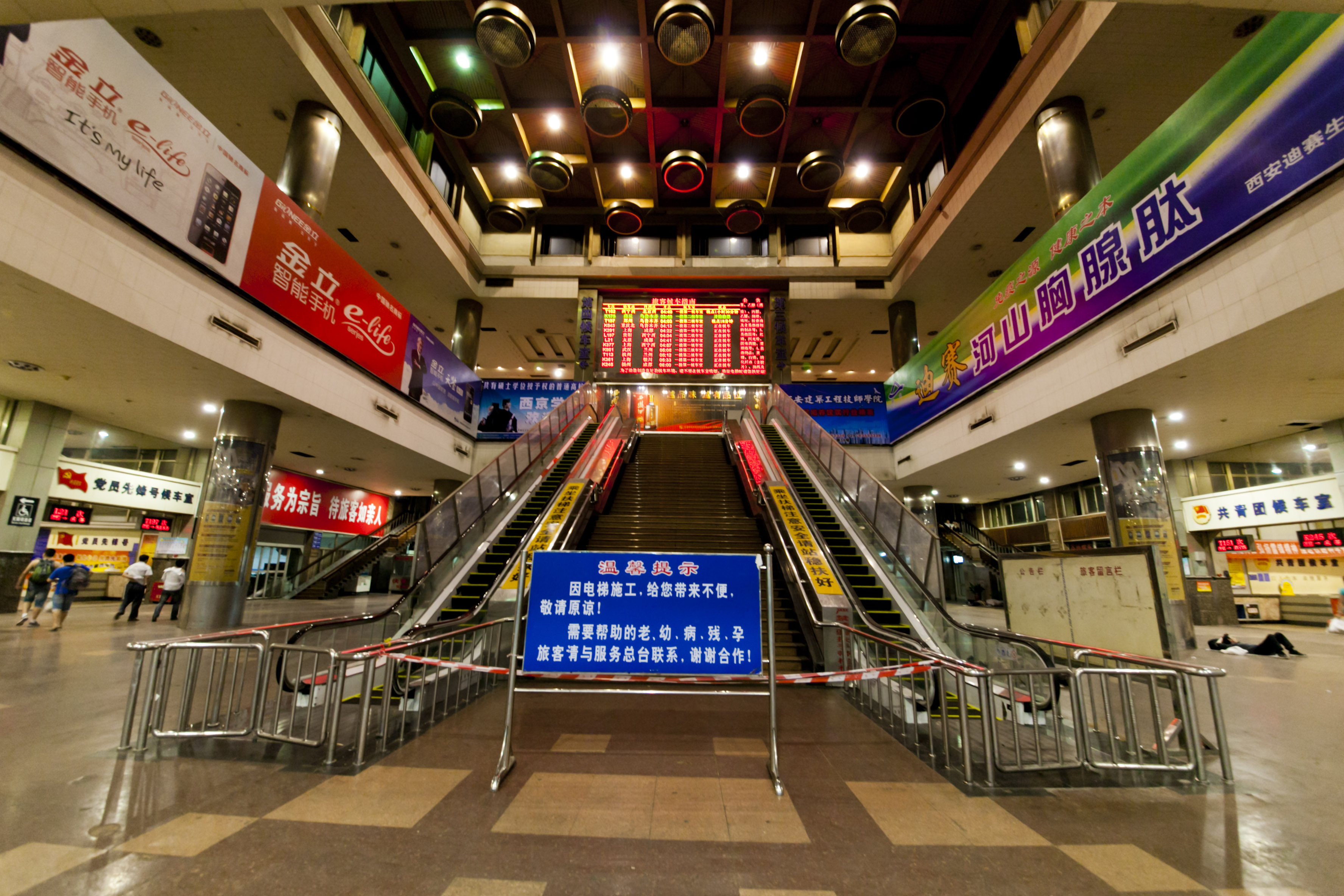 Xian Station Entrance Hall